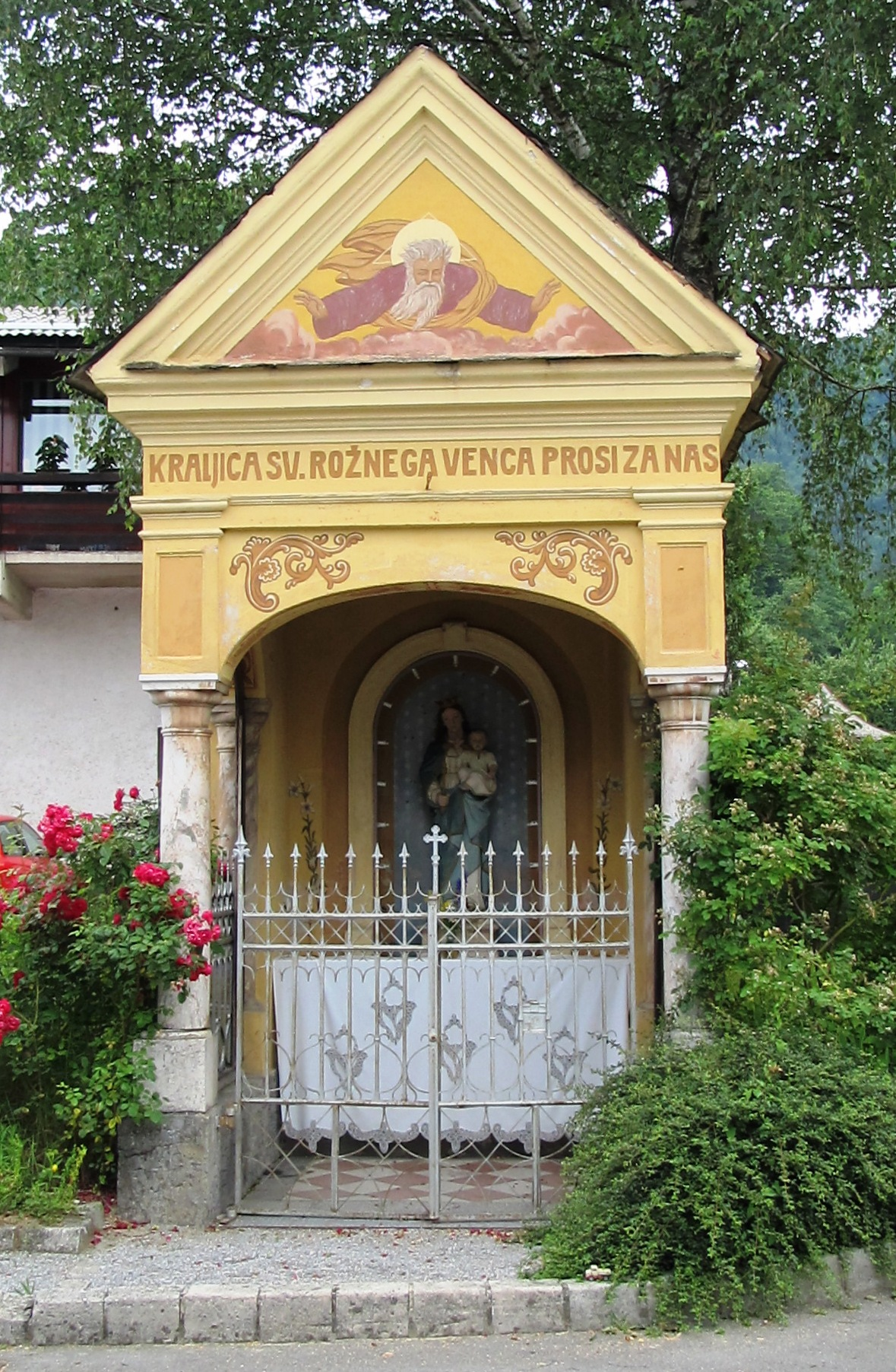 Shrine to Our Lady of the Rosary in Horjul, Slovenia (1895)